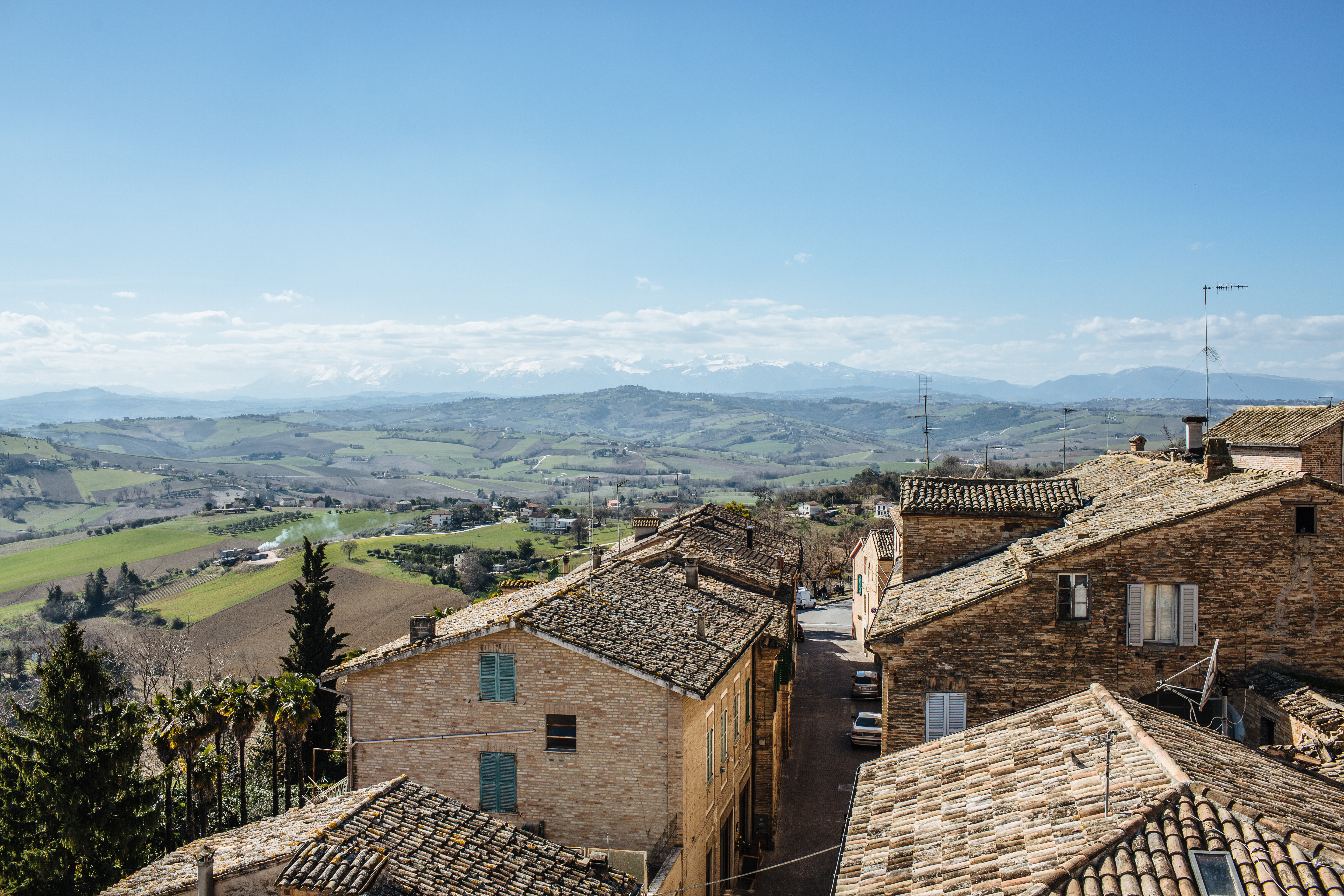 Petriolo view